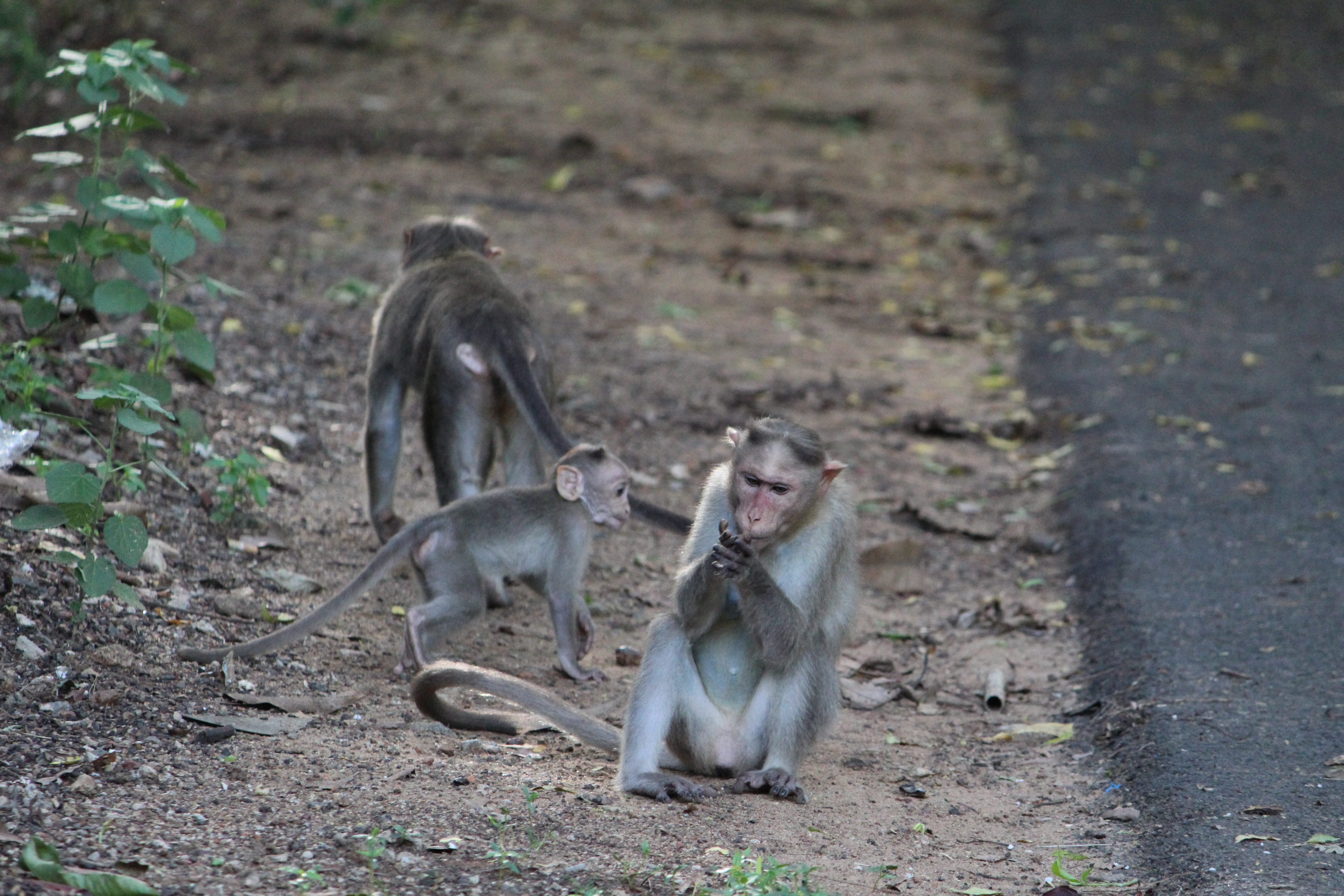 Monkey IITM